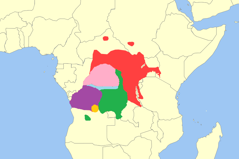 Cercopithecus ascanius distribution